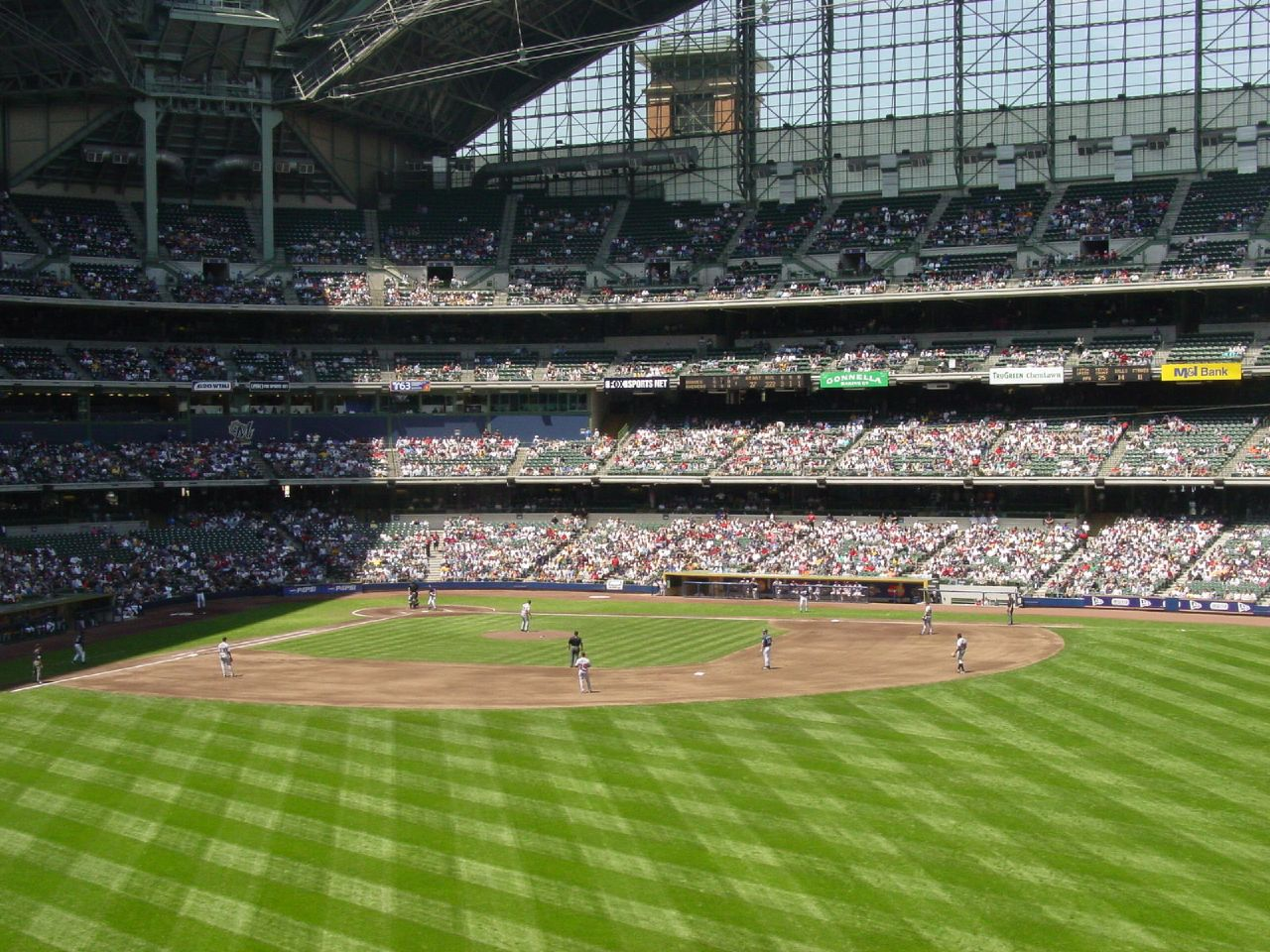 A view from left field as the Milwaukee Brewers play host to the Altanta Braves.